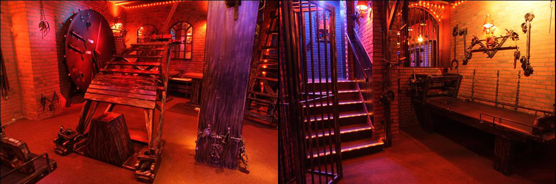 Club de Sade - Hamburg Germany